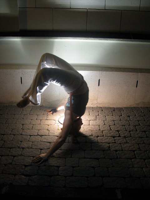 Productions are in Veszprém in Hungary